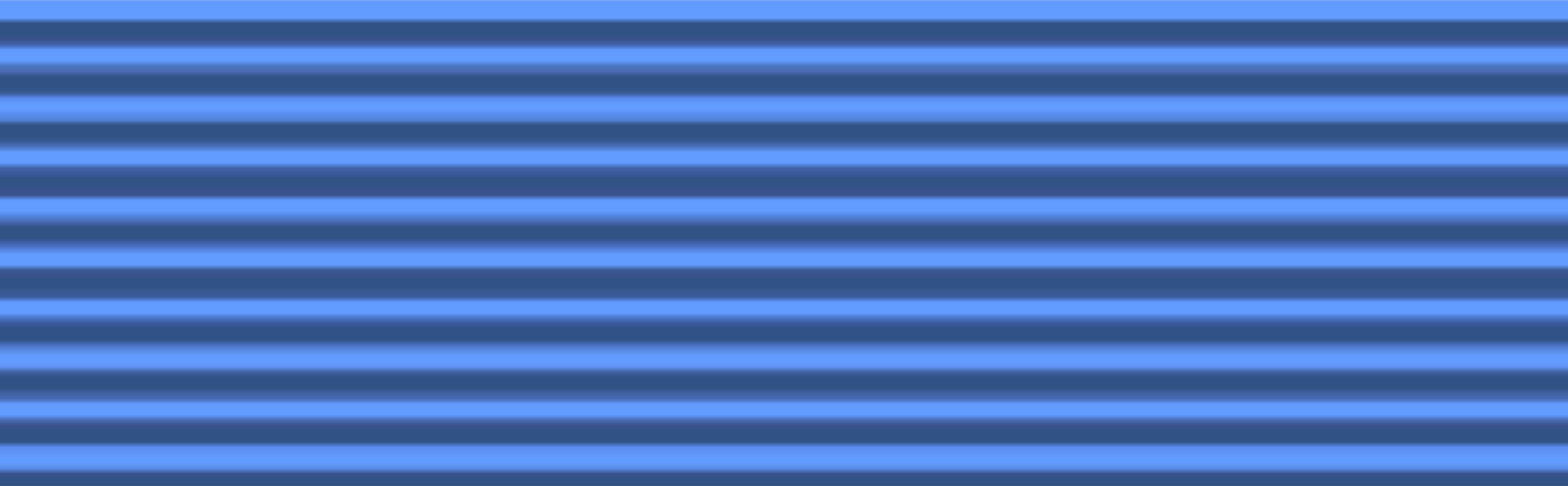 Ribbon bar of the Friedrich Order of Württemberg